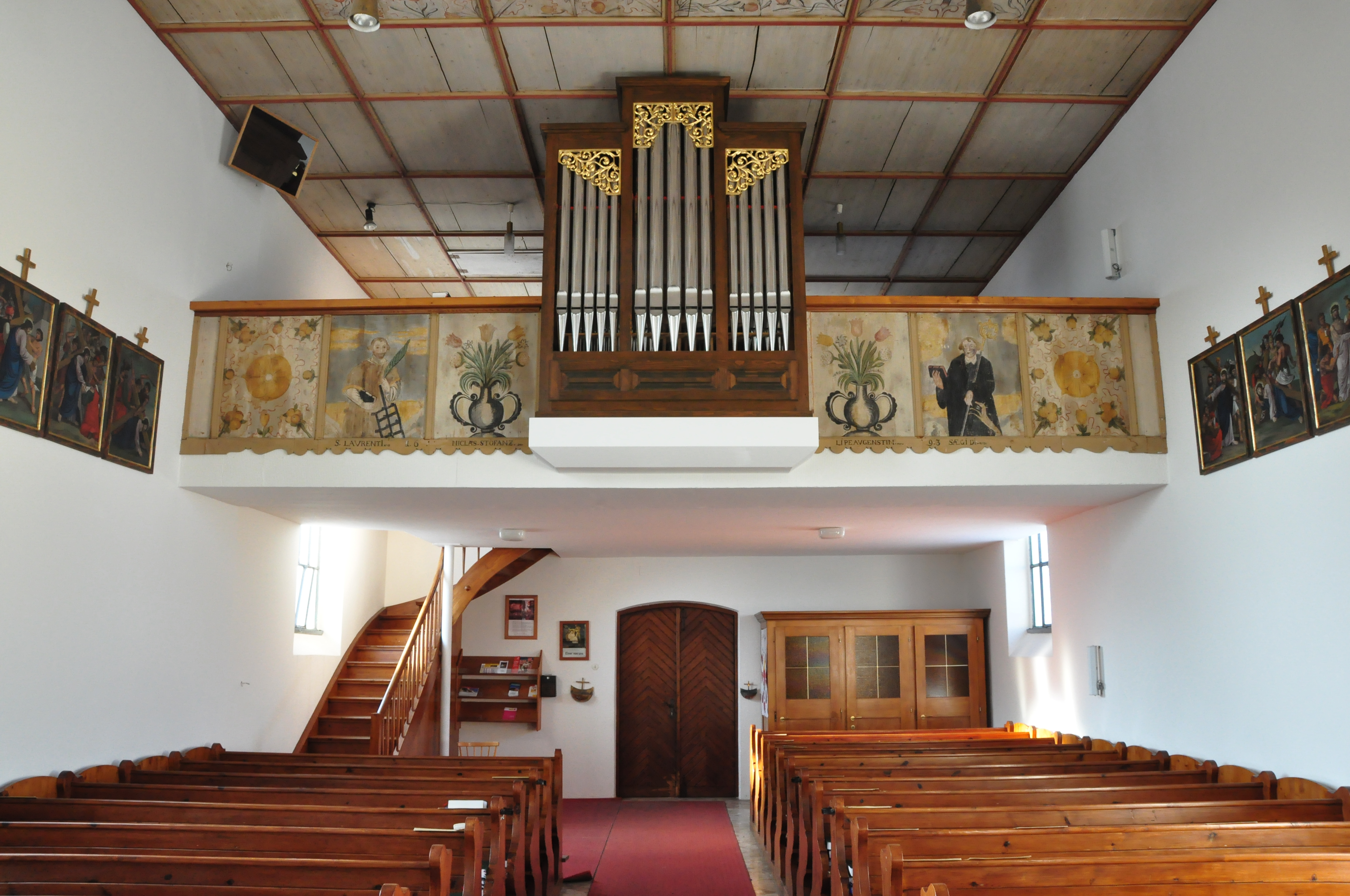 Organ gallery in the parish church Saint Vitus in Edling, market town Eberndorf, district Völkermarkt, Carinthia, Austria, EU